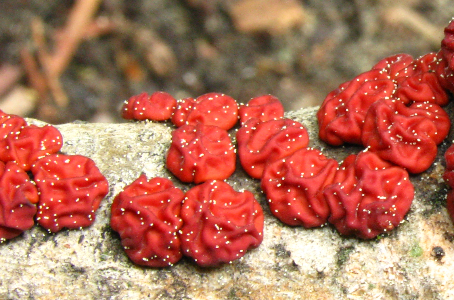 Peniophora rufa (Fr.) Boidin Image location: Little Cottonwood Canyon, Wasatch National Forest, Utah, USA Recognized by sight For more information about this, see the observation page at Mushroom Observer.